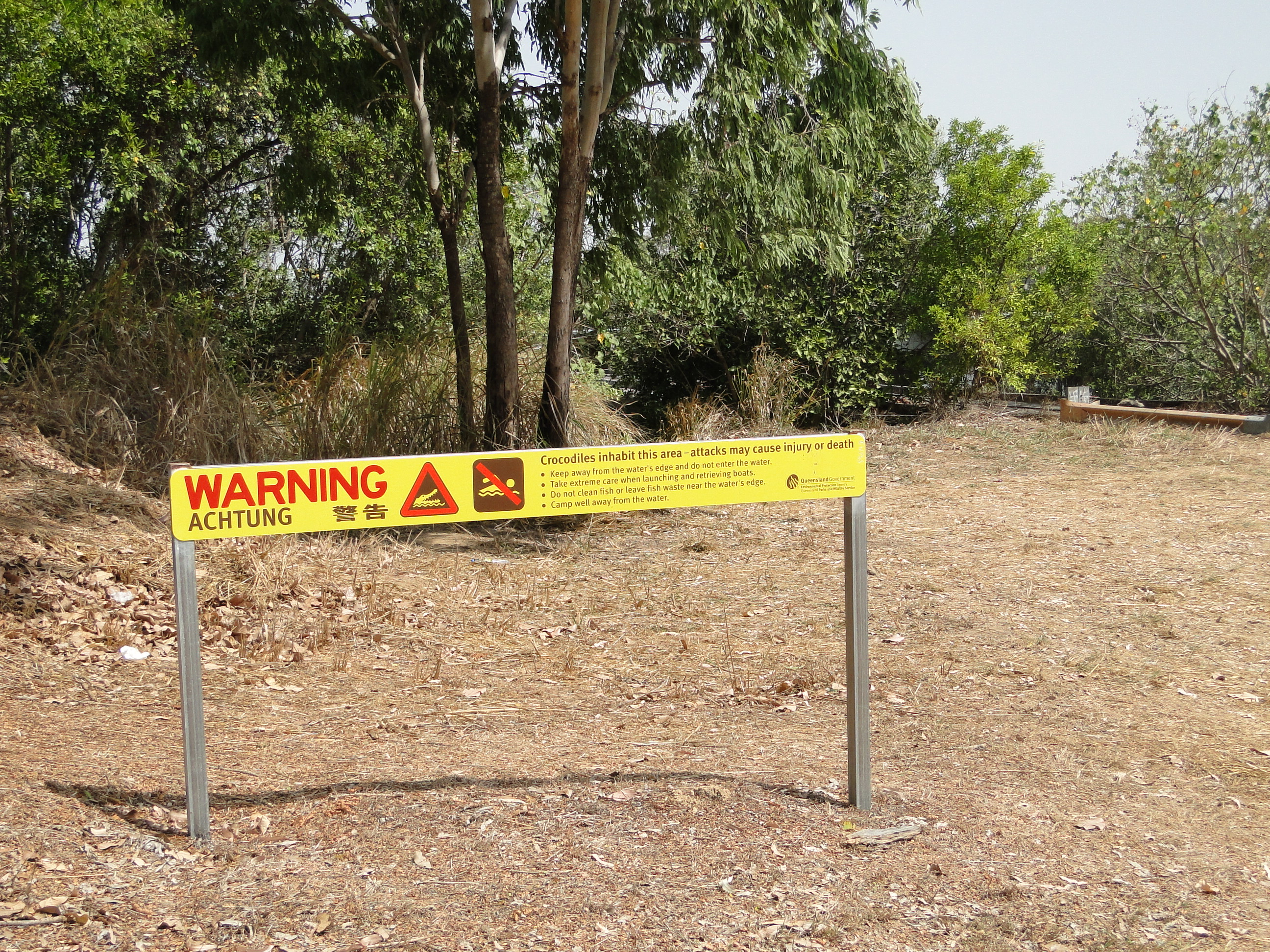 Crocodile warning sign on the banks of the Annan River, Queensland, Australia.